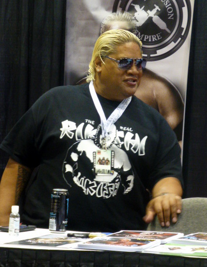 Rikishi Chicago Comic & Entertainment Expo (C2E2) 2015.